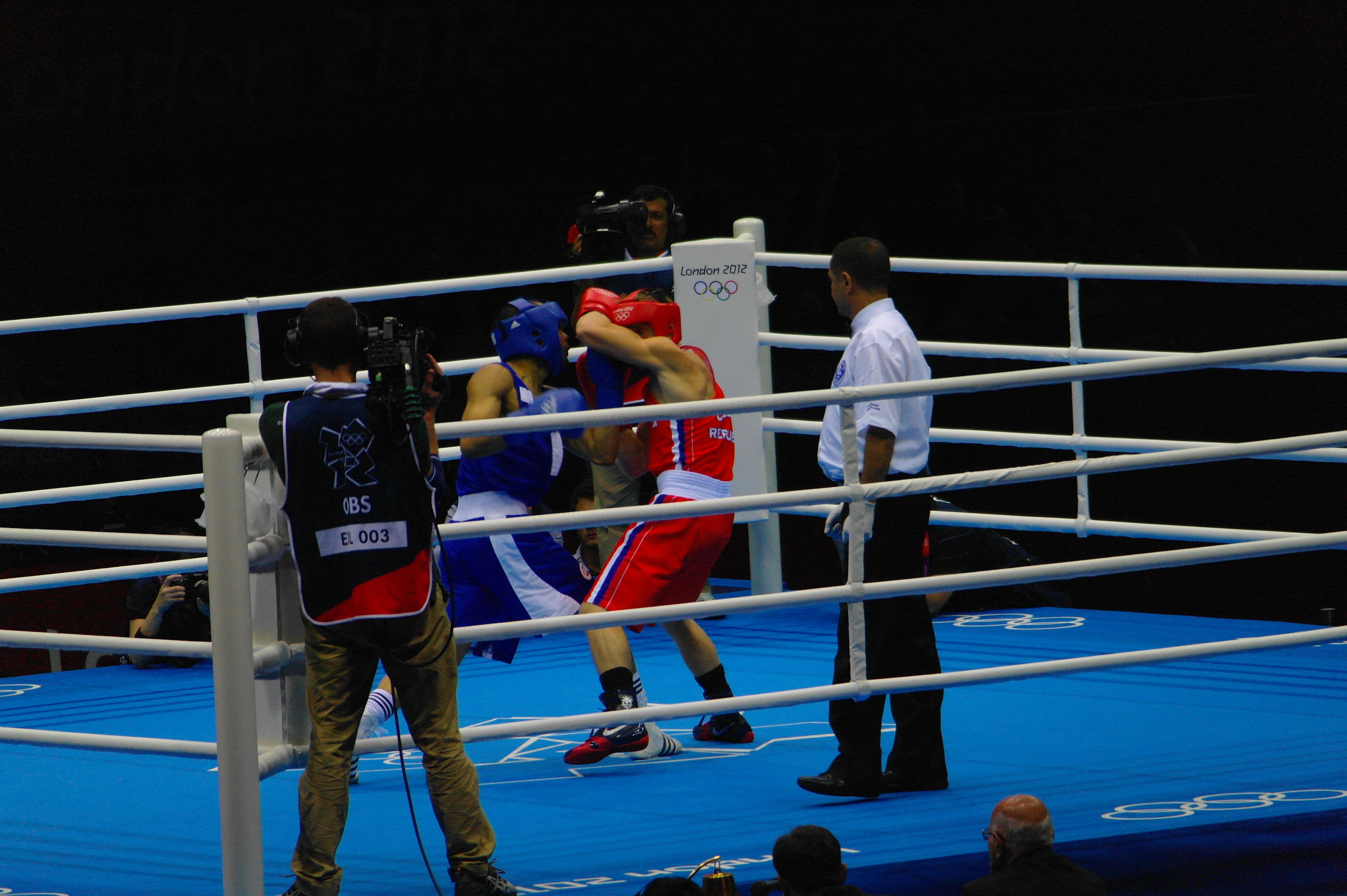 Zdeněk Chládek (CZE, red) vs Uranchimegiin Mönkh-Erdene (MGL, blue). Uranchimegiin went on to win the bronze medal.